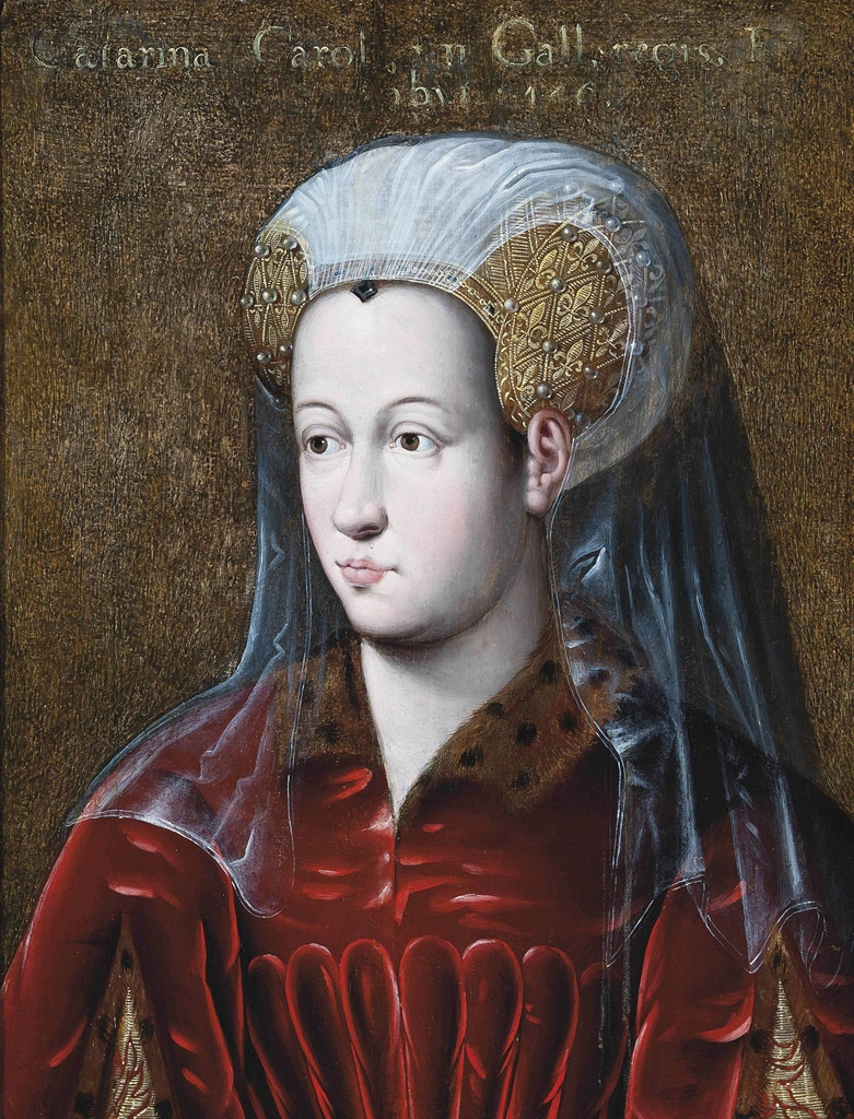 Portrait of Catherine of Valois (or Catherine of France) (died 1446), Countess of Charolais (daughter of King Charles VII of France and Marie of Anjou, wife of Charles of Burgundy, count of Charolais (future duke Charles the Bold), bust-length, in a red fur-trimmed mantle and a richly embroidered headpiece with a white veil